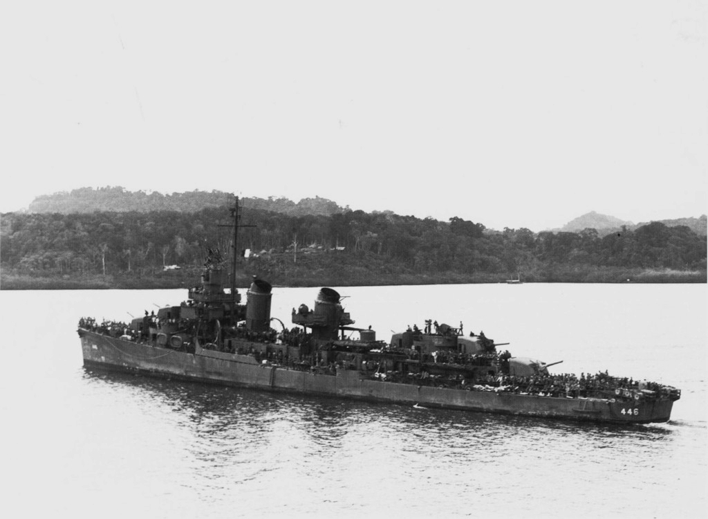 The U.S. Navy destroyer USS Radford (DD-446) steaming into Tulagi Harbour in the Solomons with a deckload of survivors of the sunken light cruiser USS Helena (CL-50), and with the wounded filling all available space below, 6 July 1943. Helena was sunk during the Battle of Kula Gulf the night before. Radford received Presidential Unit Citation for the rescue of 468 survivors.